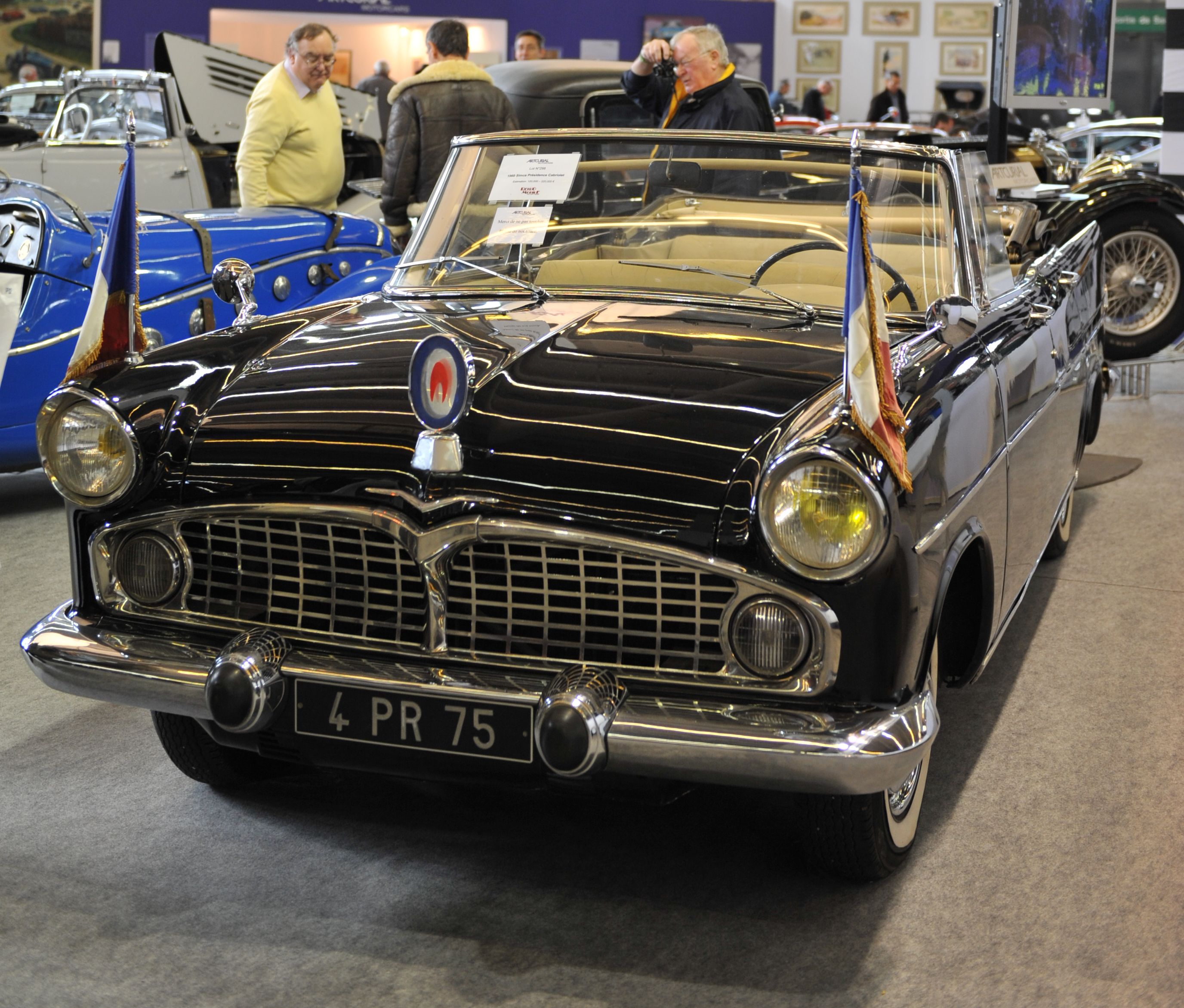 Artcurial Simca Président